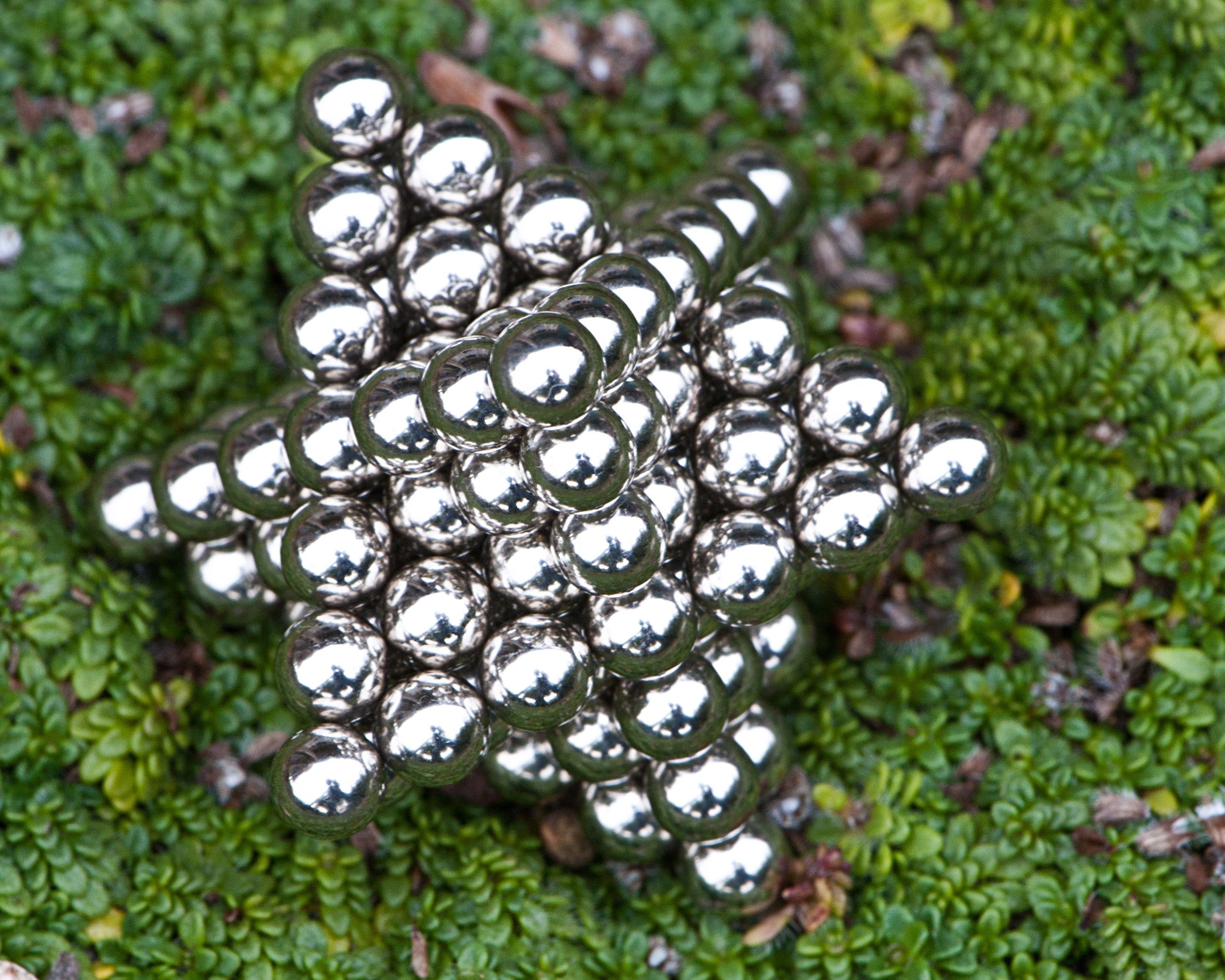 Stella octangula number formed from 124 magnetic balls